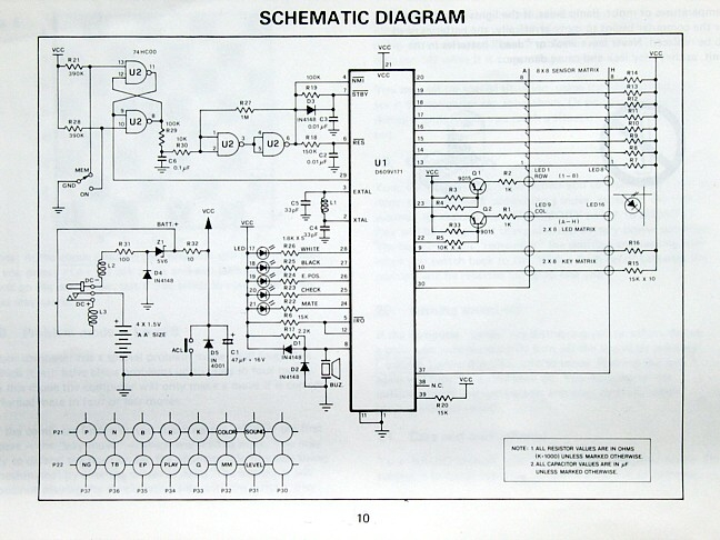 Tandy radio shack 1650 computerized chess